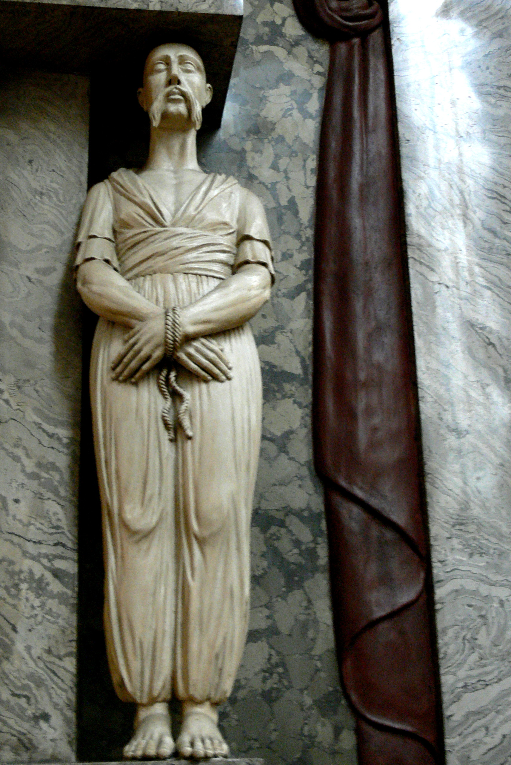 Vienna. Church of the Maltese Order: Monument for grand master Jean Parisot de la Valette ( 1806 ) - Statues of captive turcs.